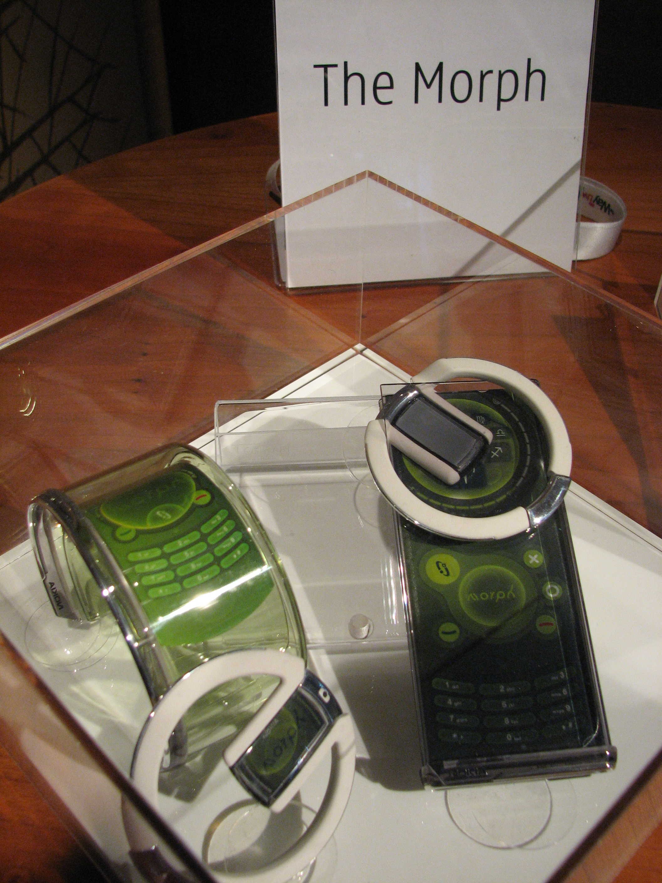 Nokia Morph